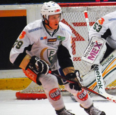 Cropped photo of Swedish ice hockey player Patrik Lundh.